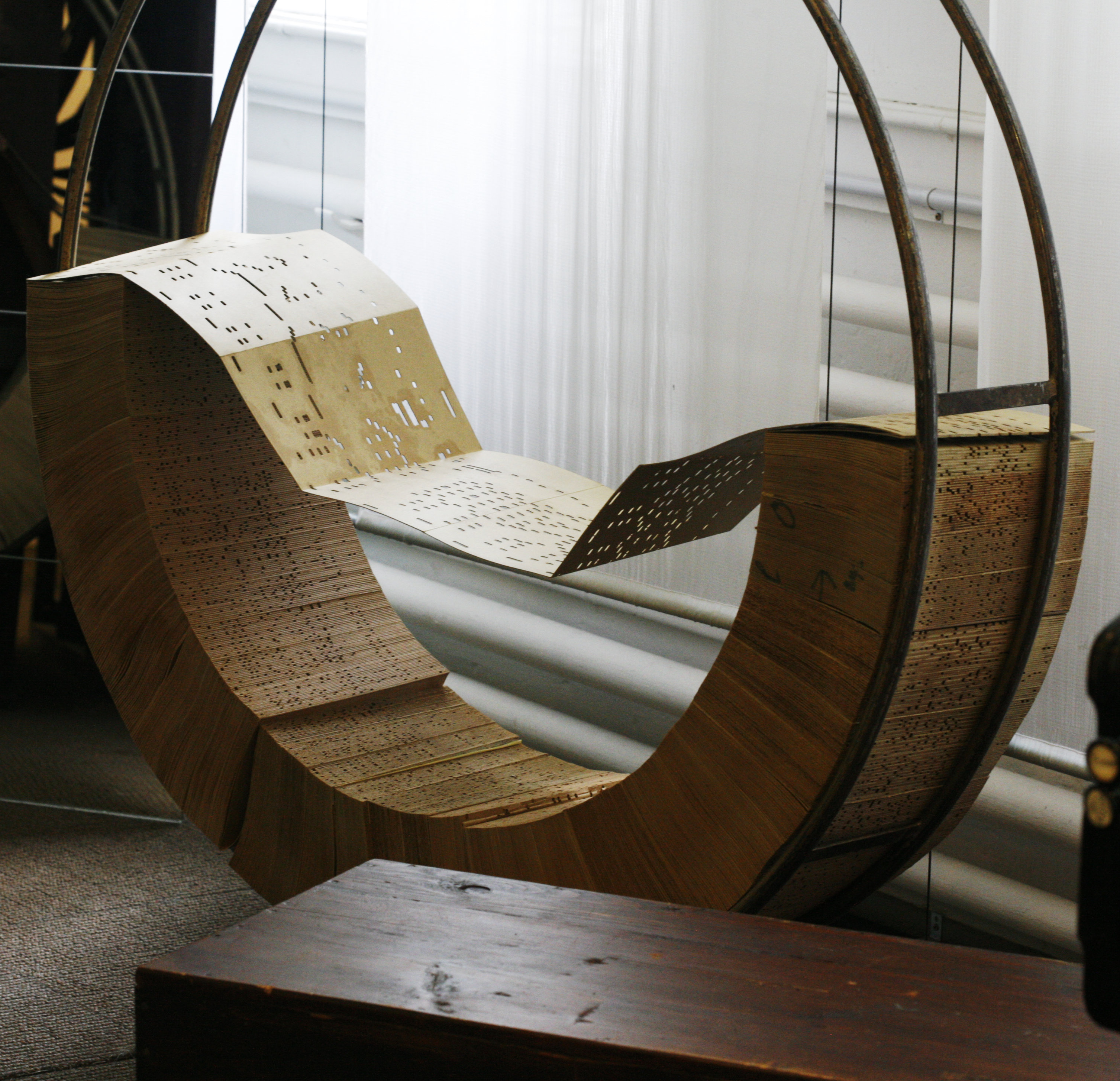 CIMA museum (Centre International de la Mécanique d'Art)